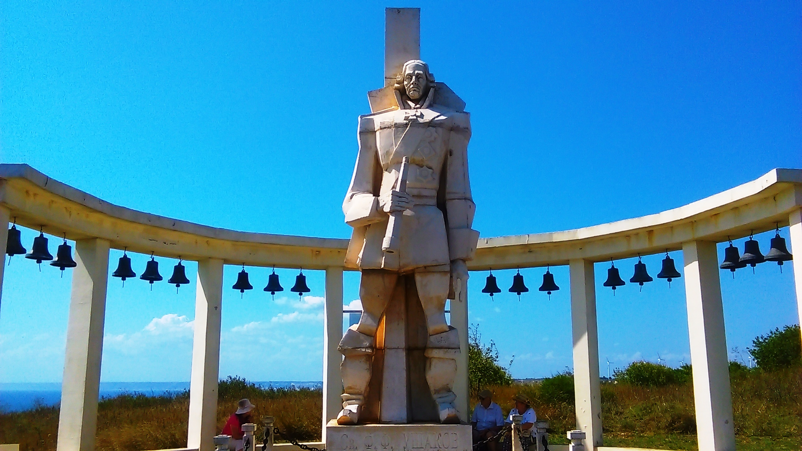 The monument of the Russian admiral Ushakov at cape Kaliakra, Bulgaria